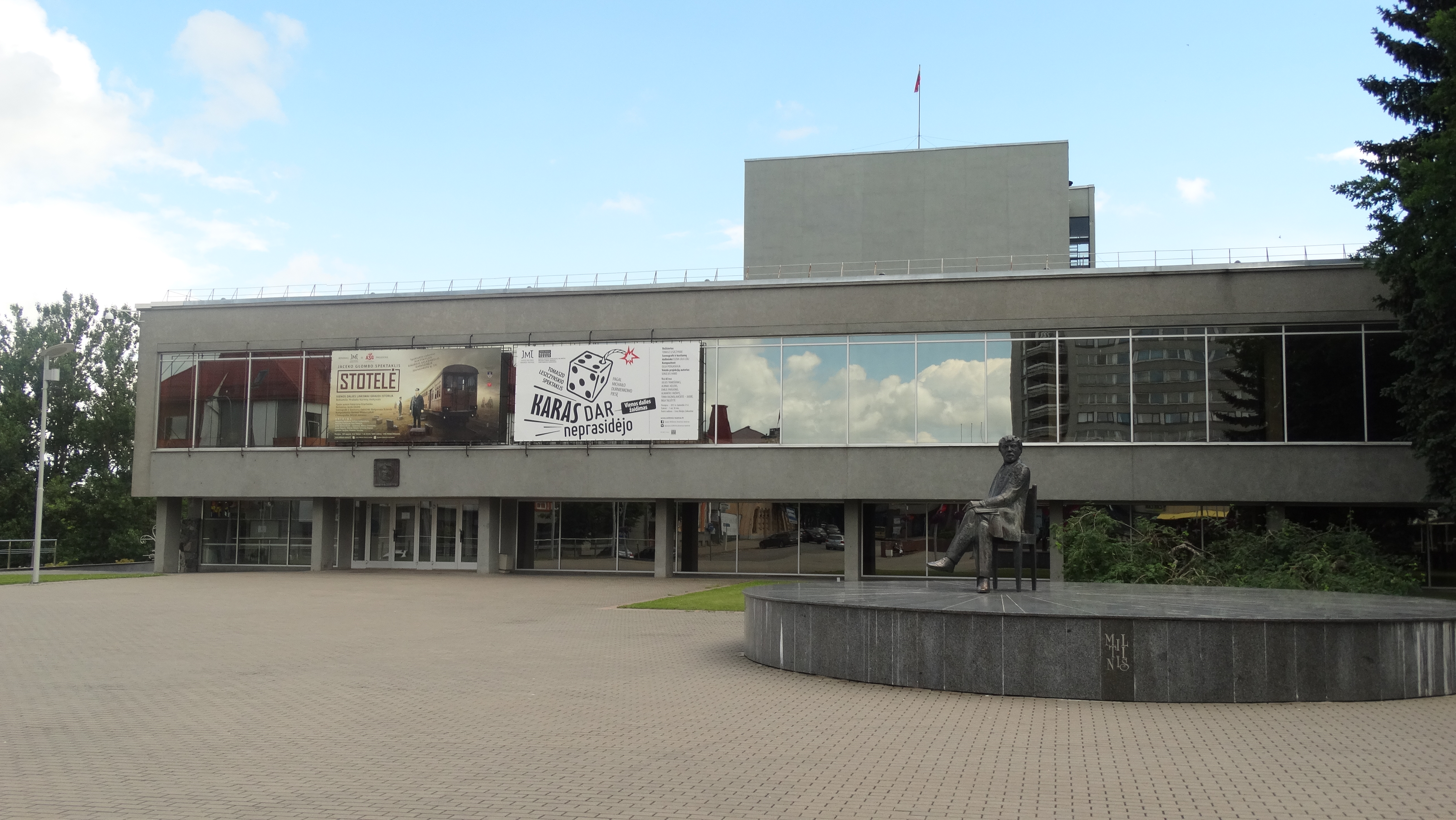 Juozas Miltinis drama theatre, Panevėžys, Lithuania